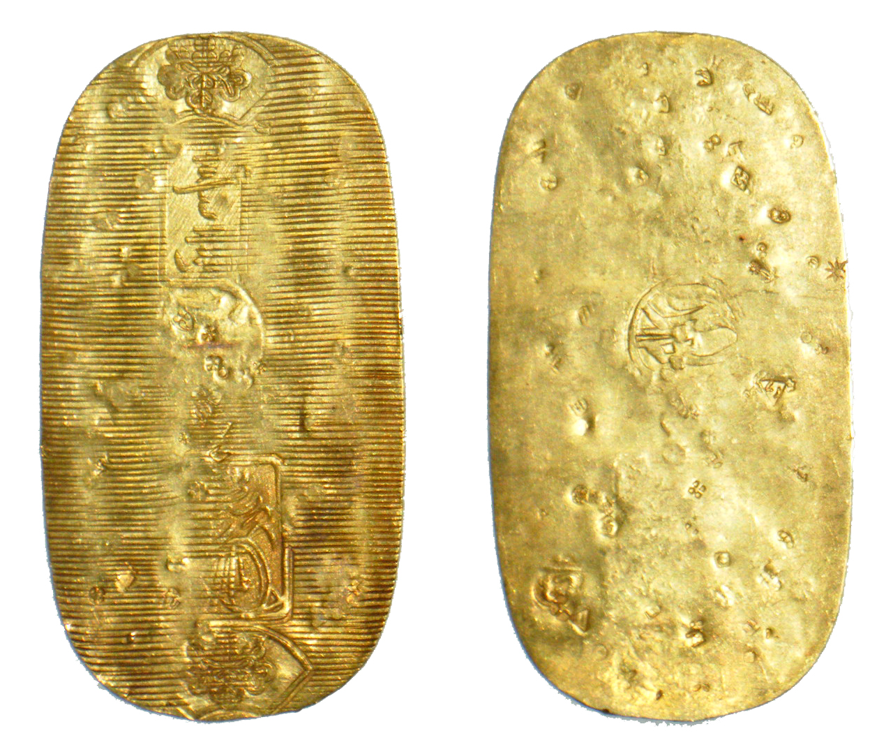 Keicho-koban